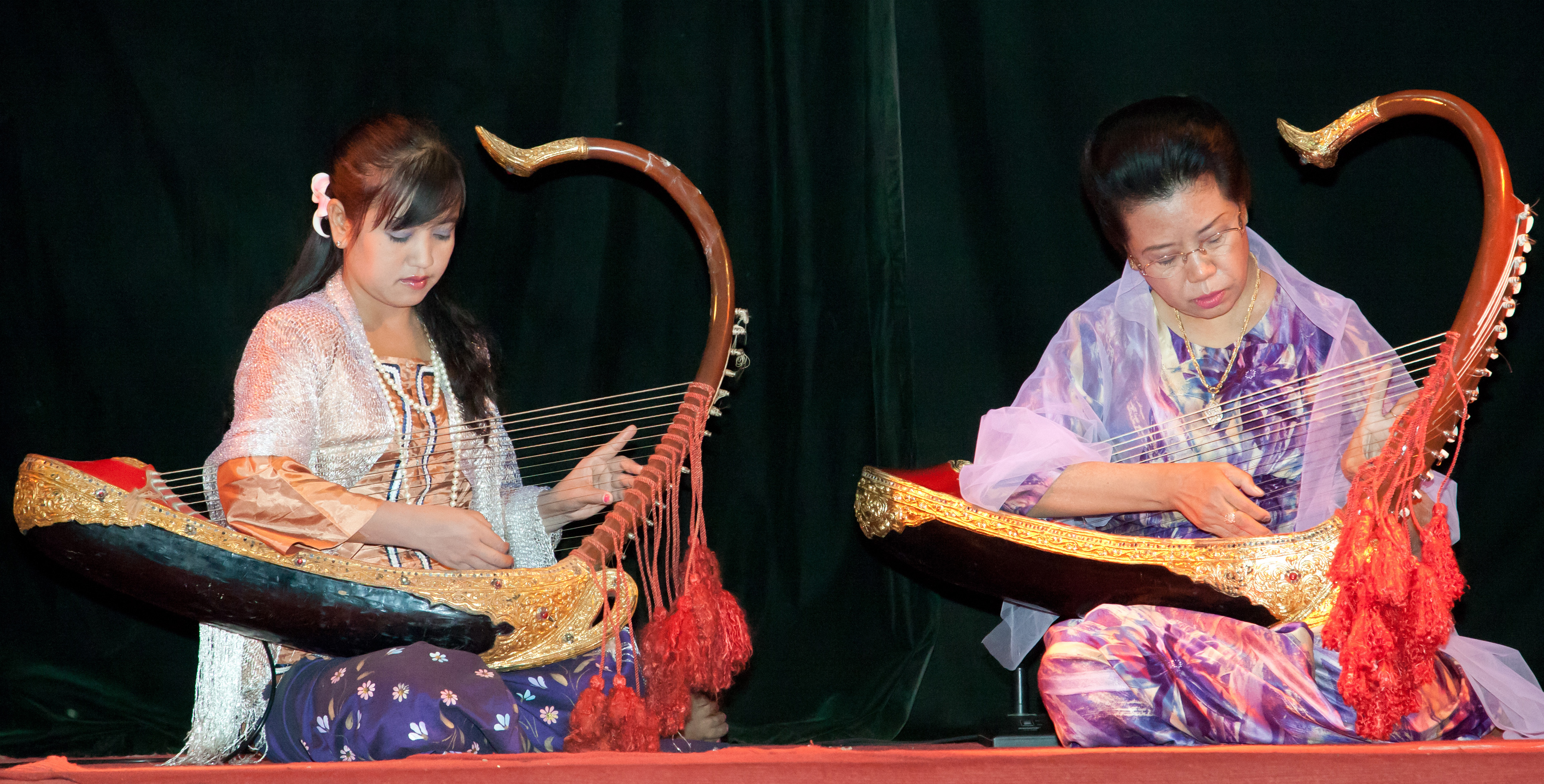 Two women harpists playing the Saung, a bow harp from Myanmar also called Burmese or Myanmar harp, in the evening performance of the "Manalay Marionettes Co., Ltd.", 66th street, betw. 26th + 27th street, next to the Sedona-Hotel, Mandalay, Myanmar. Photographed with permission by verbal consent. Exposure: stage light and flashlight.